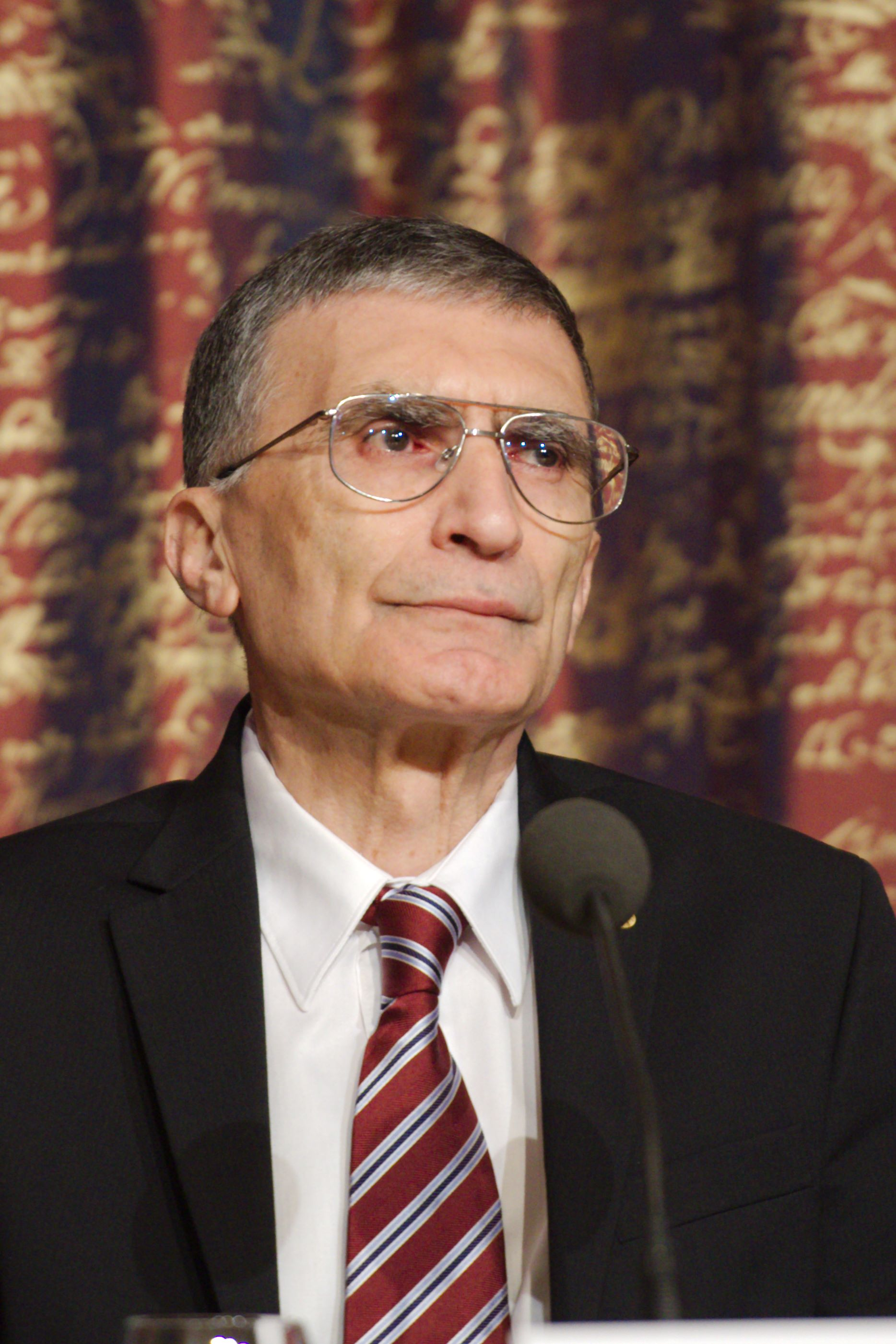 Aziz Sancar at a press conference at the Royal Swedish Academy of Sciences